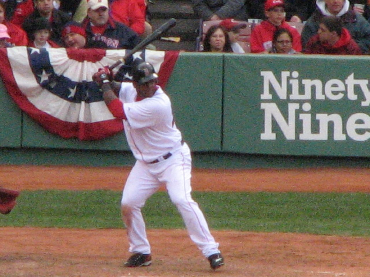 Wily Mo Peña